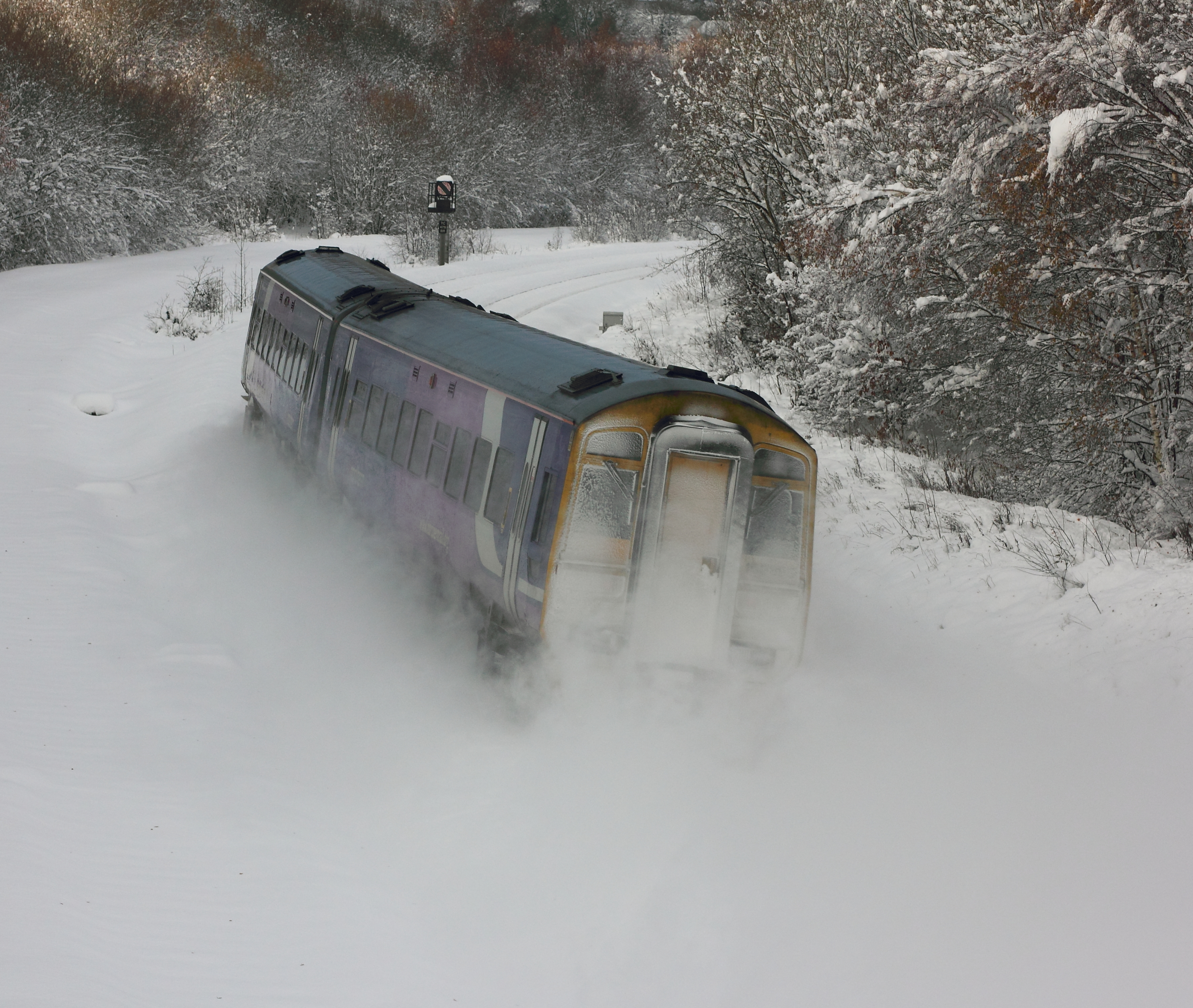 A Northern Rail Class 158 DMU passes North Wingfield